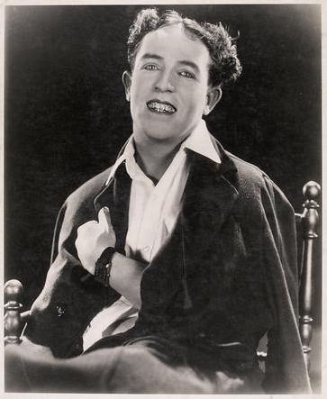 Silent film actor Lige Conley